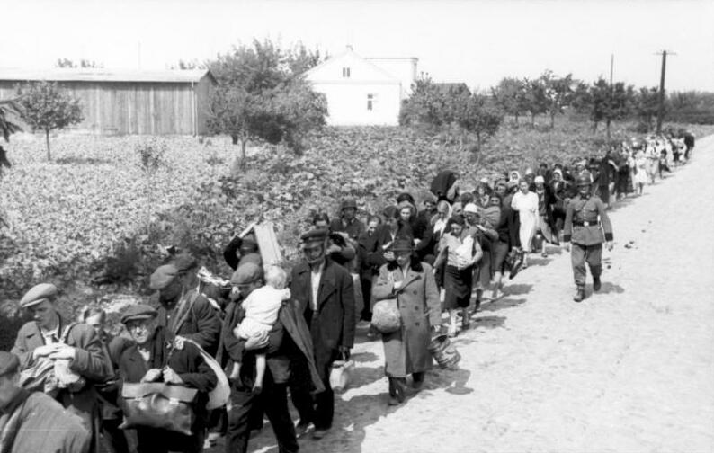 Warsaw Uprising: Civilians on a way to Dulag 121 camp in Pruszków.